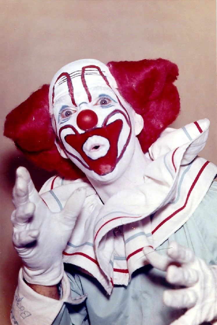 This photo of me, Roger Bowers, in my character of "Bozo The Clown" when I had the Bozo Show at WJHL-TV, Johnson City, TN. in 1960.